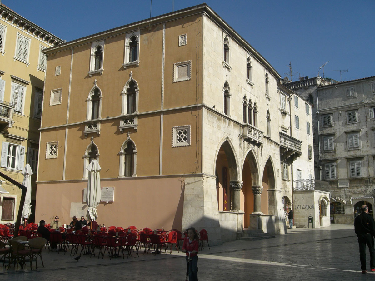 Former building of City council and Ethnographic museum in Split